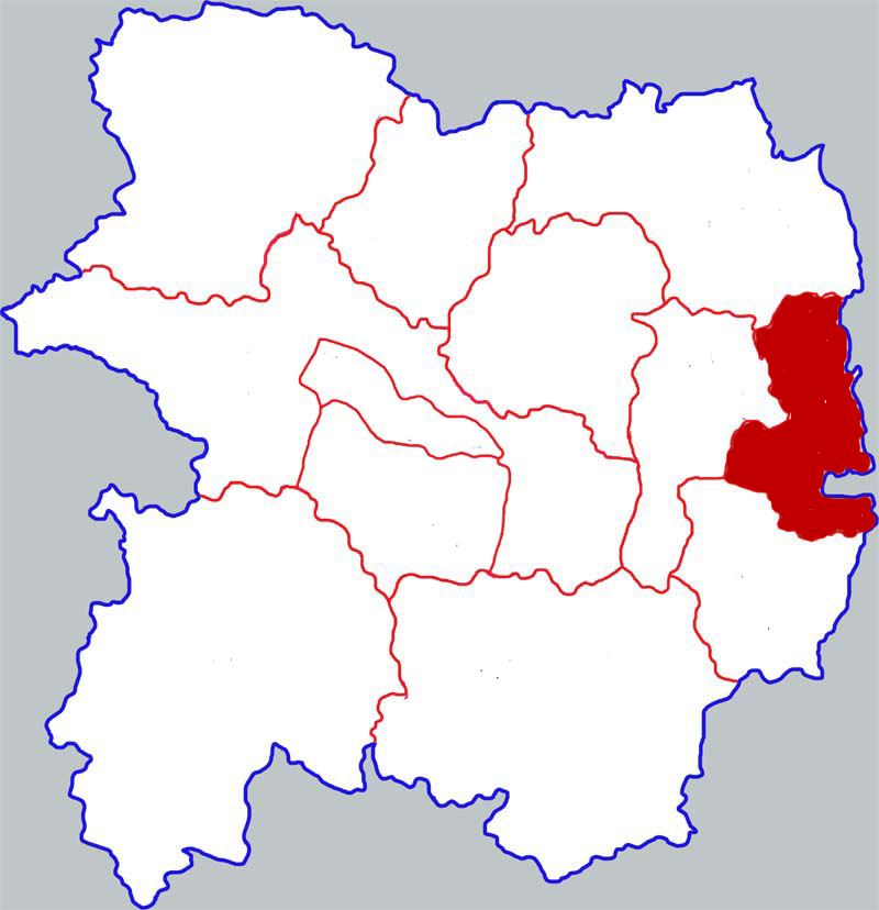 Location of Fufeng county in Baoji city, China